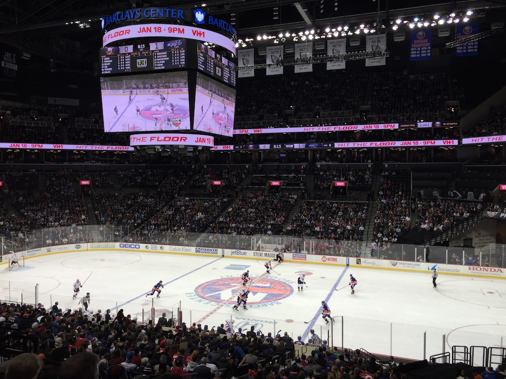 Barclays Center - Home of the New York Islanders